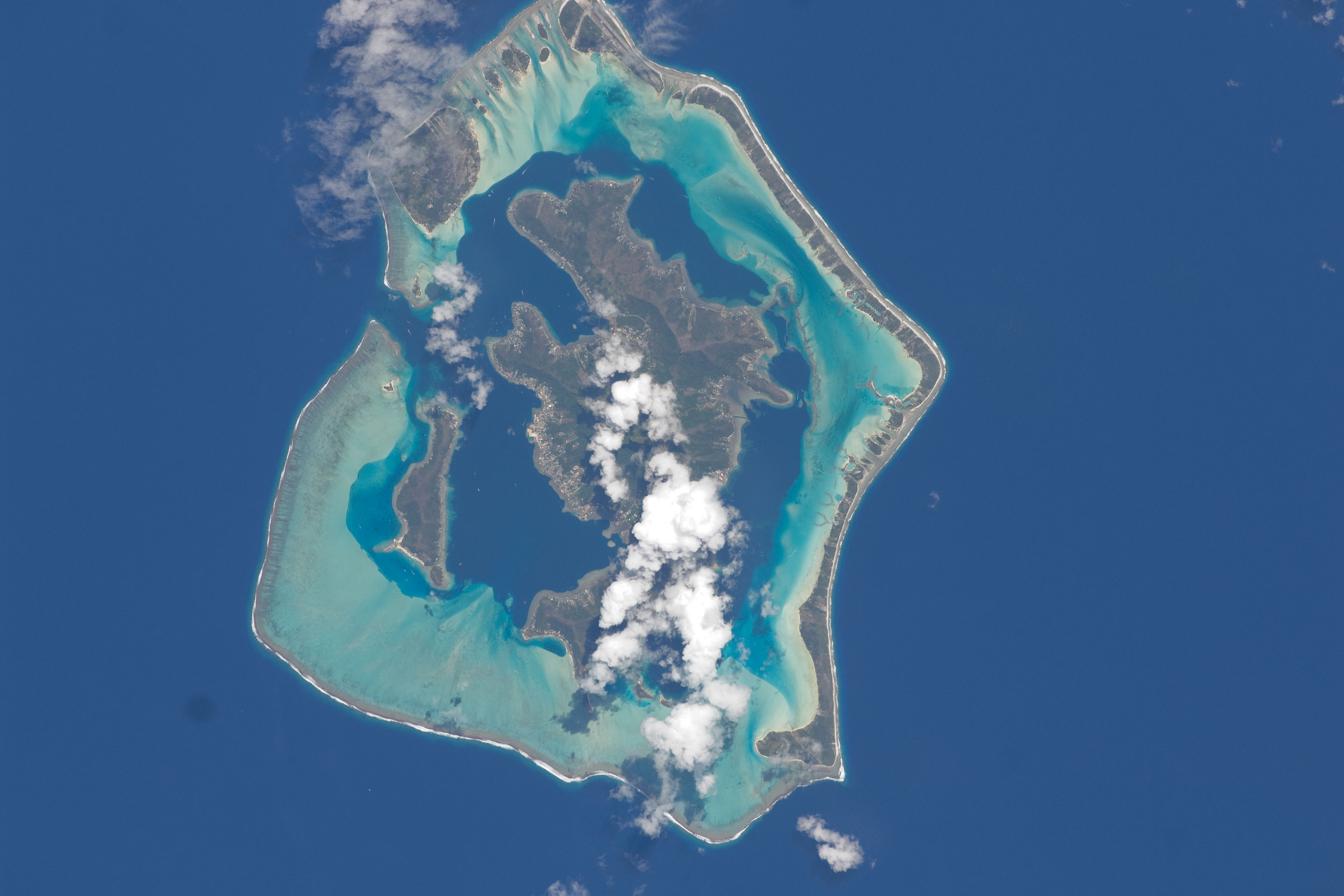 Satellite picture of Bora Bora